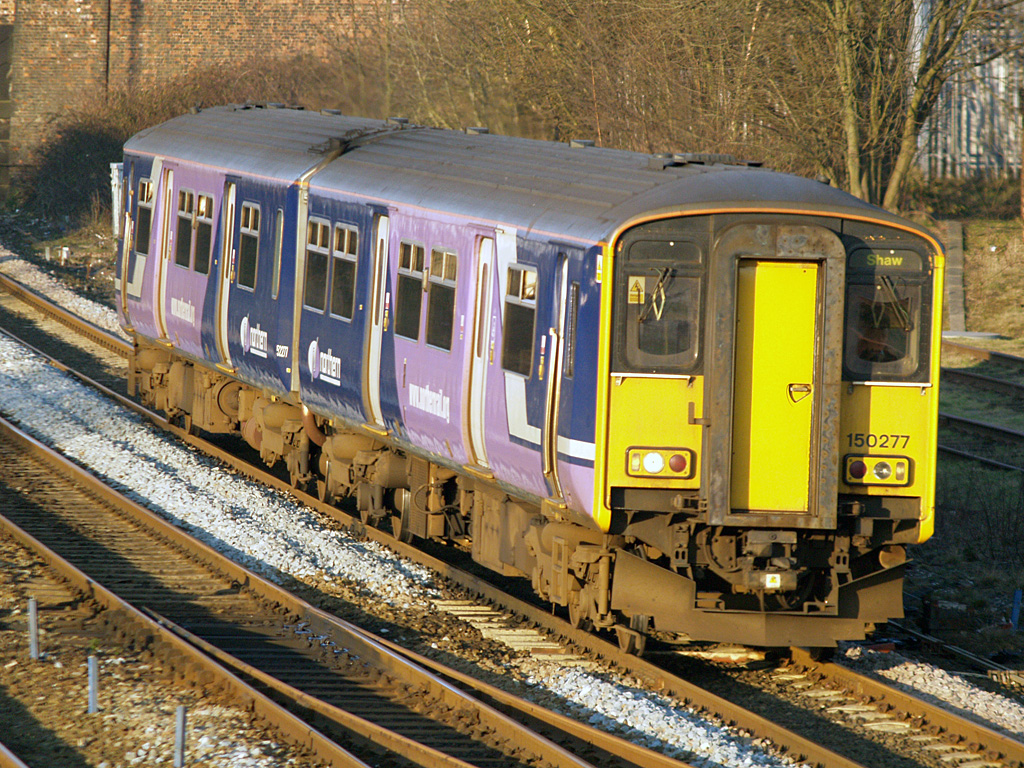 Northern Rail (leased from Porterbrook Leasing Company Limited) former British Railways British Rail Engineering Limited class 150/2 ‘Sprinter’ two car diesel-hydraulic multiple unit number 150277 (57277 and 52277) of Newton Heath TMD passes Castleton East Junction on the Up Main line forming the 16:03 (Daily) Rochdale to Kirkby (2F11). Saturday 16th February 2008